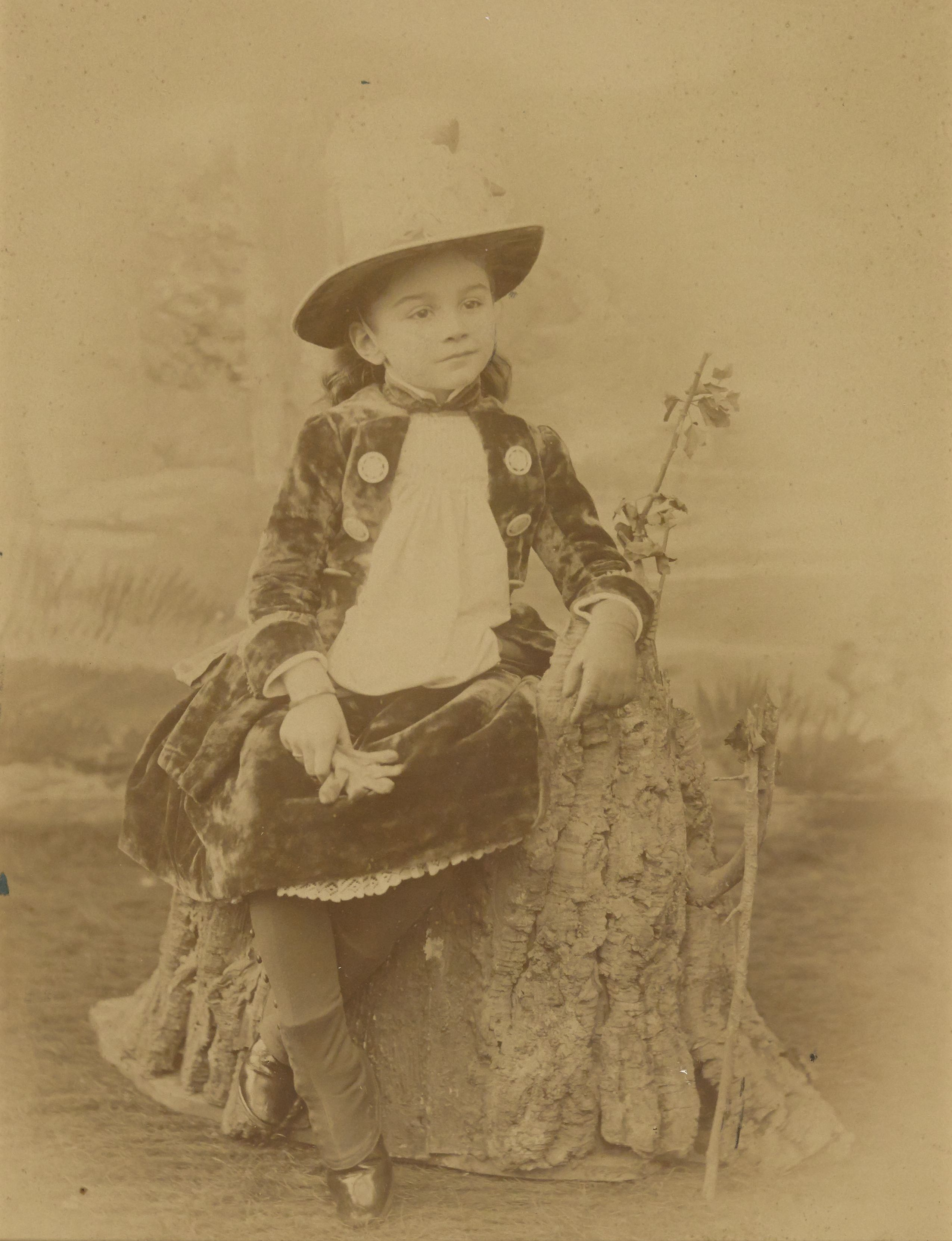 Portrait of the young Marie Bonaparte (1882-1962) during the 1890s